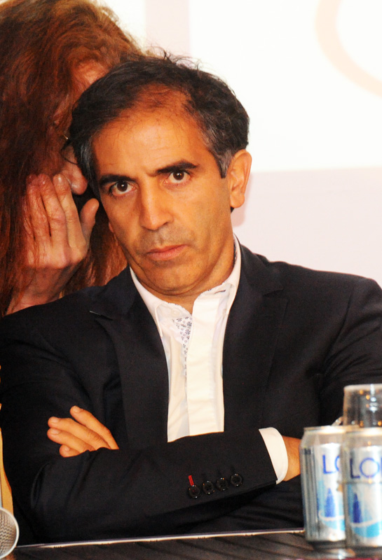 French football coach Farid Benstiti after watching his PSG team lose 2–1 at Tyreso FF in the UWCL, October 2013